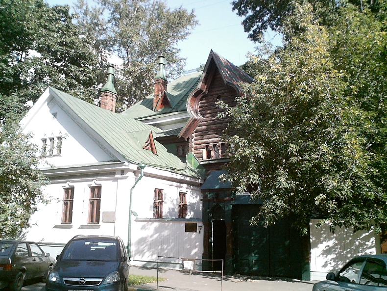 Facade of painter Vasnetsov House (1894-1926) in Moscow